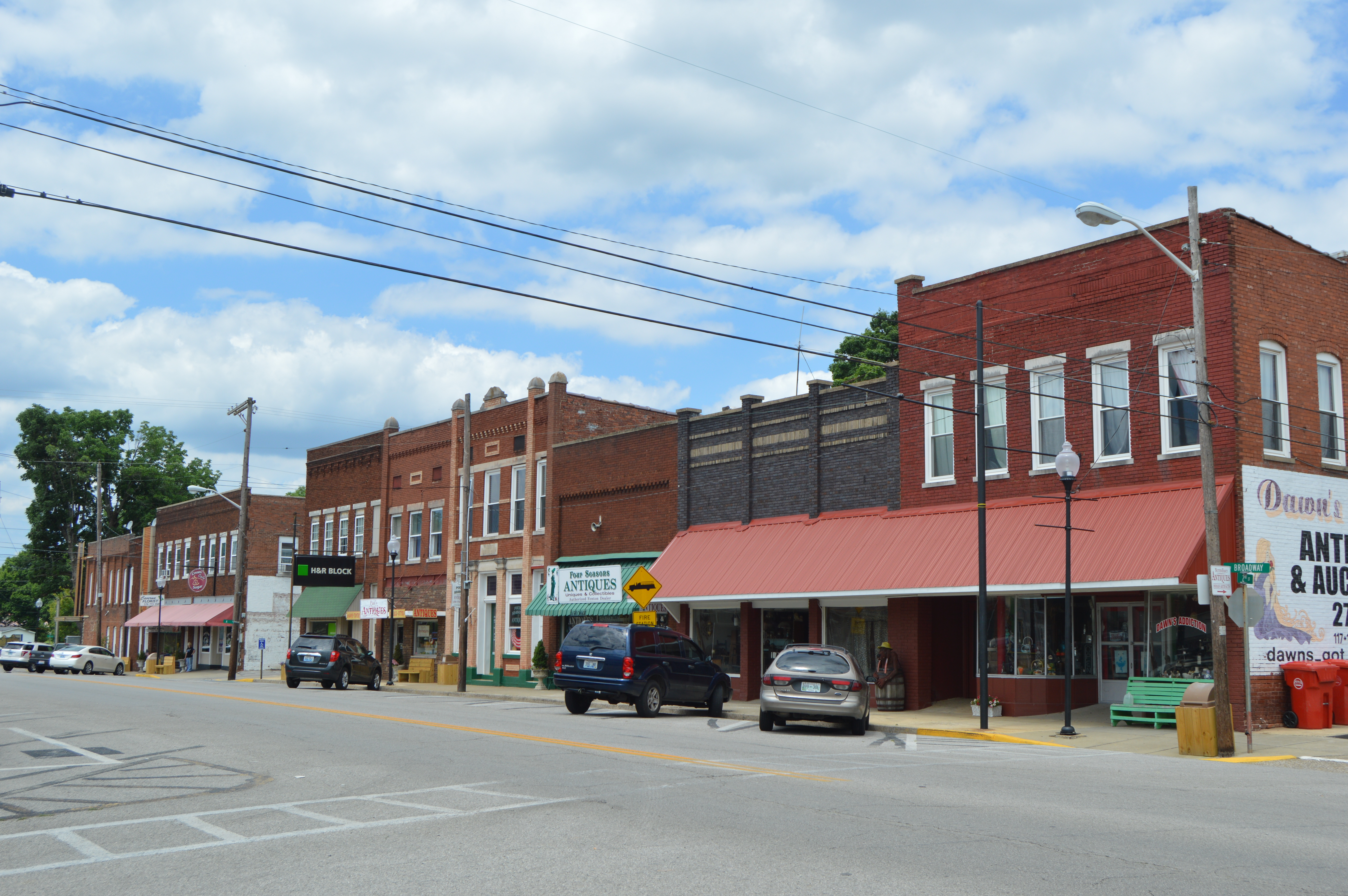 Buildings on the eastern side of Broadway (Kentucky Route 70) between First and Second Streets in Cave City, Kentucky, United States. This block is part of the Cave City Commercial District, a historic district that is listed on the National Register of Historic Places.